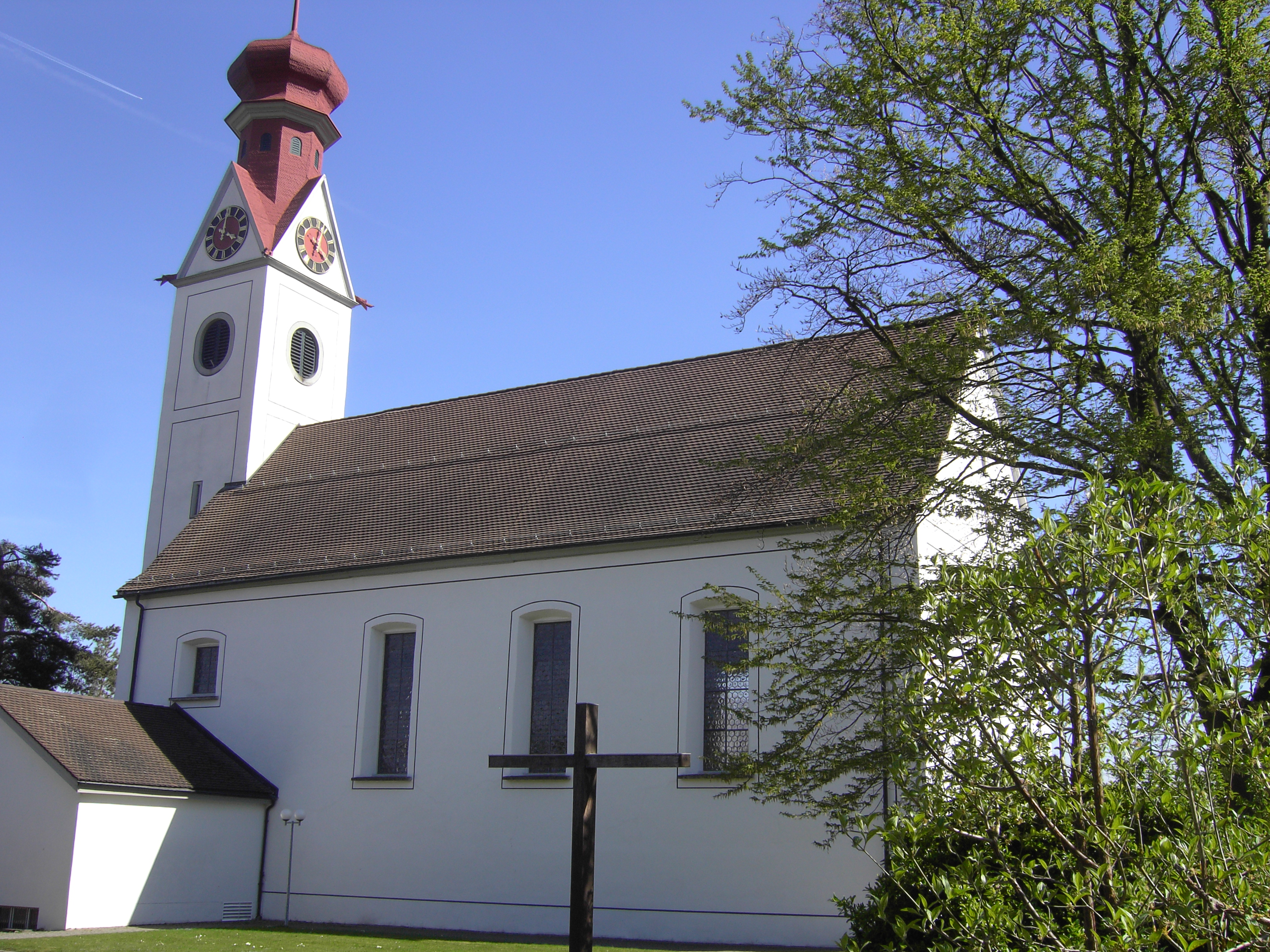 Rom.-Cath. Church of Niederwil AG, Switzerland